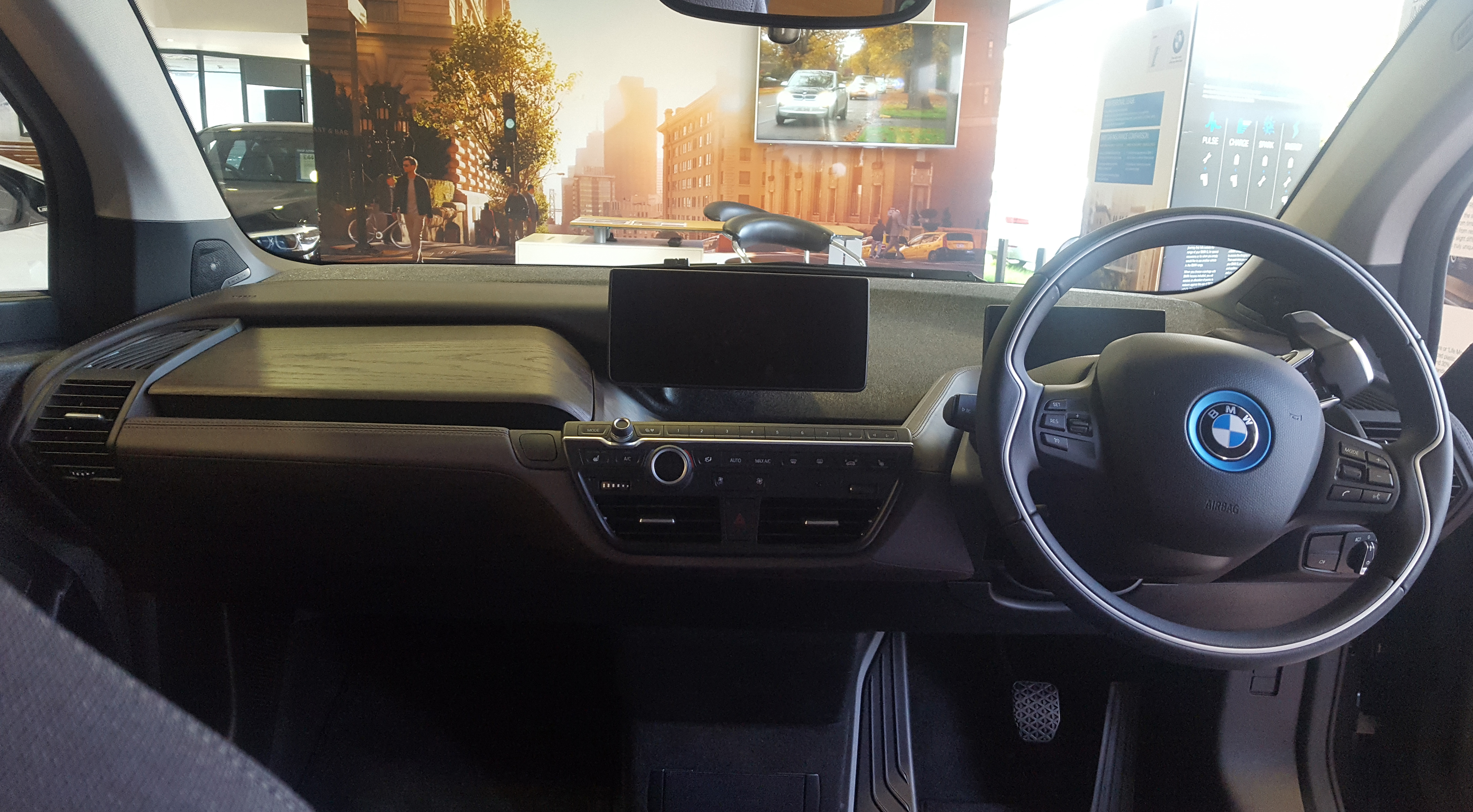 2018 BMW i3 facelift Interior Taken in Leamington Spa